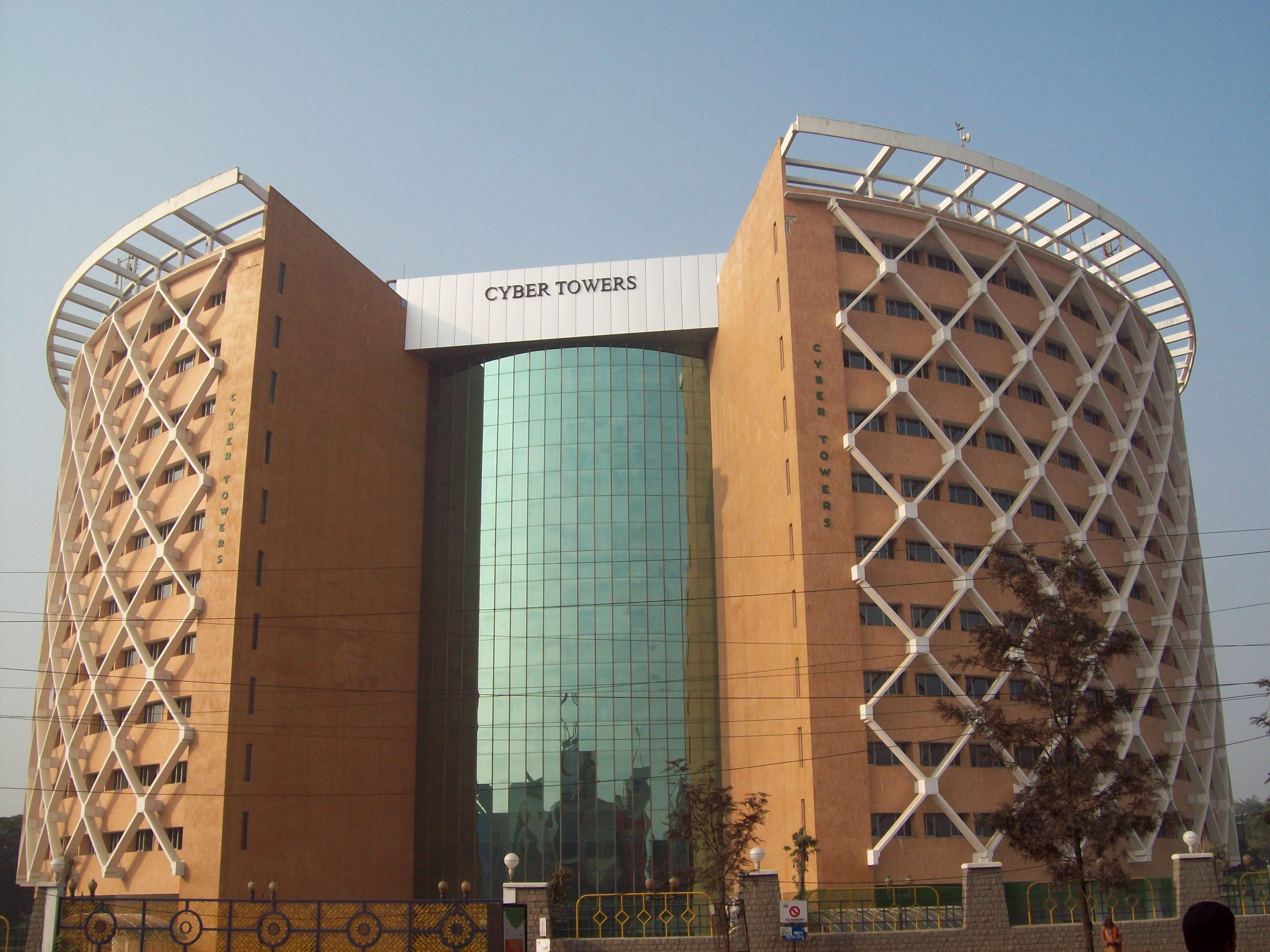 Cyber Towers the software landmark of Hyderabad. Located at Madhapur surrounded by many software majors like Wipro, IBM and Accenture, the building is a huge tourist attraction.